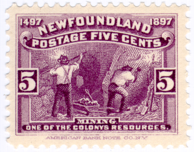 1897 Mining Stamp of Newfoundland